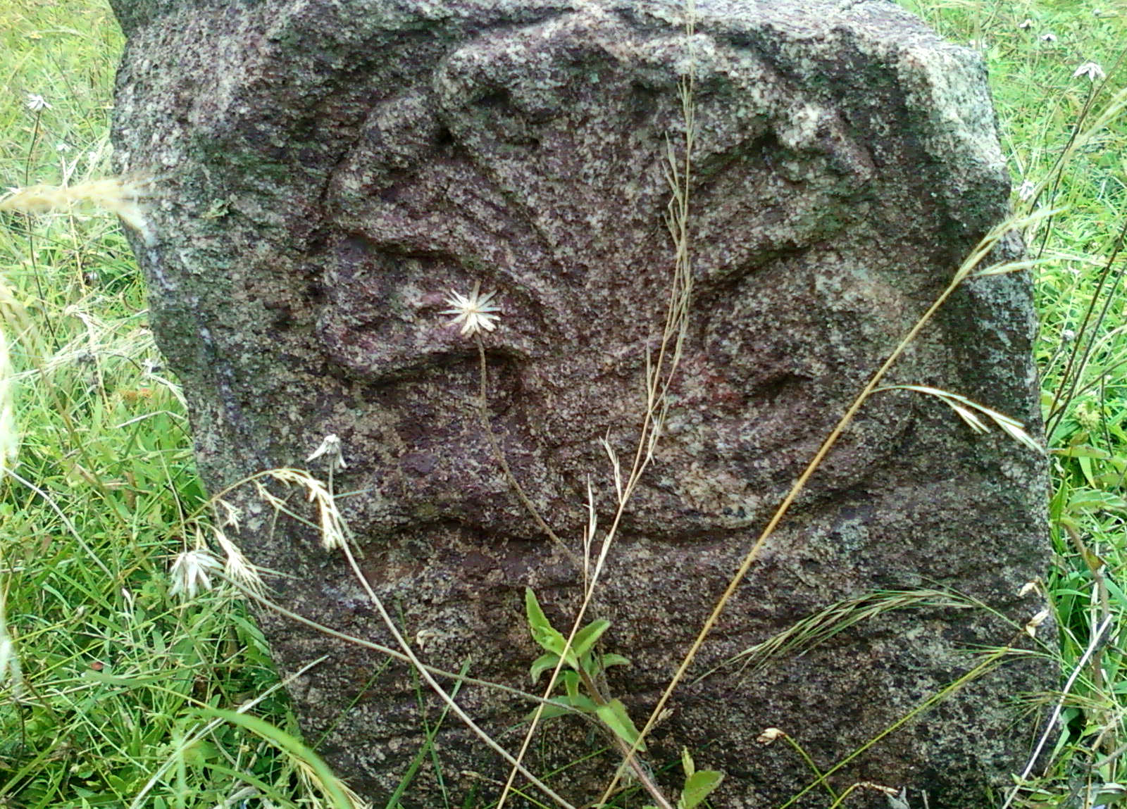 Five Headed Serpent Relief at Pavurallakonda Buddhist Monastic Ruins, Bheemunipatnam